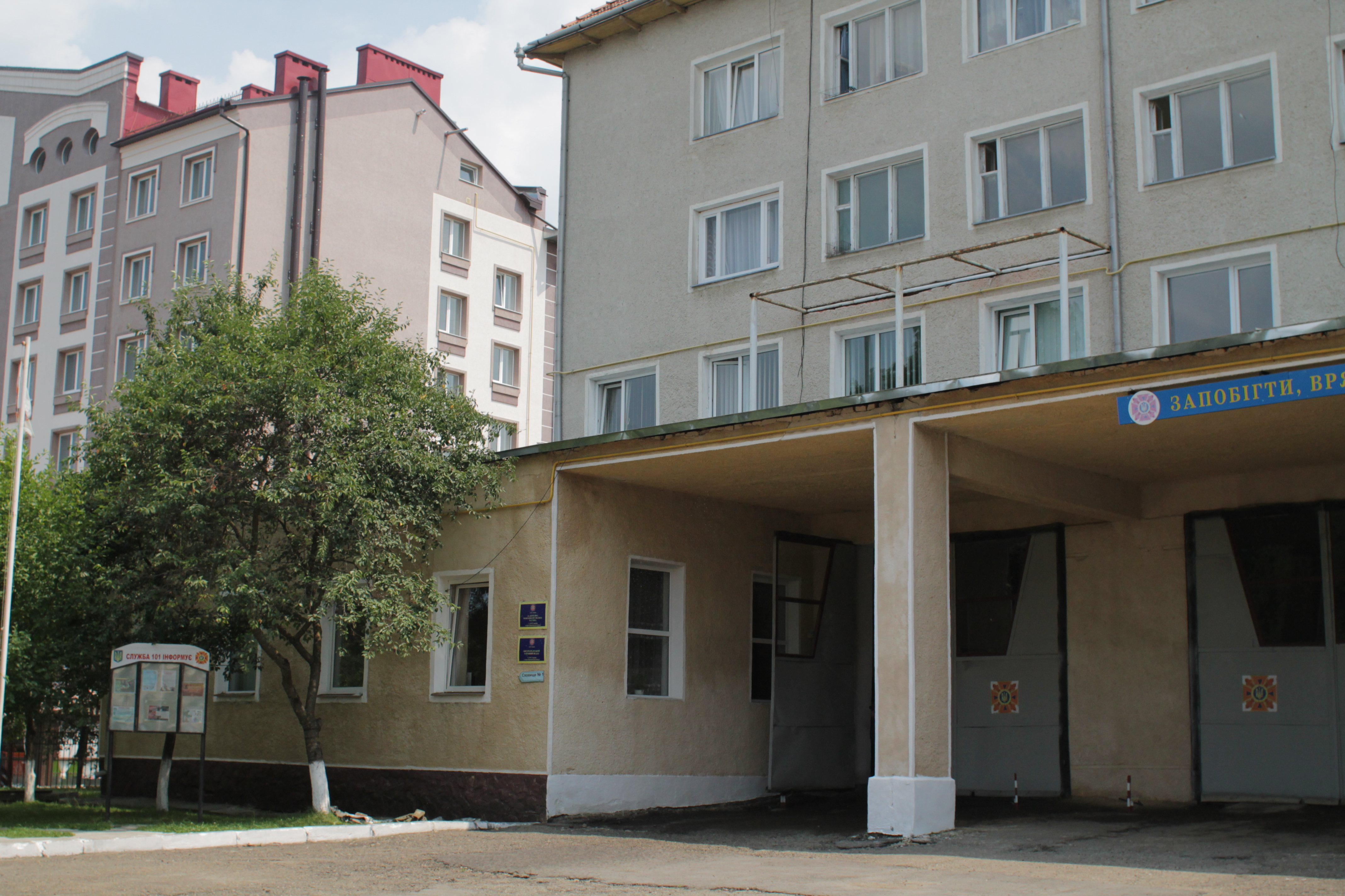 Богородчани, 4 державна пожежно-рятувальна частина у ДСНС України, 2